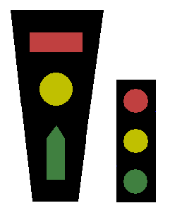 Karl Peglau's proposal for a new East German traffic lights layout in the early 1960s, in comparison of size with modern-day standard traffic lights. Based on Das Buch vom Ampelmännchen, Markus Heckhausen, Eulenspiegel Verlag, 1997, p. 23.